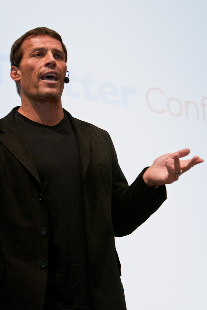 Motivational speaker Tony Robbins at a Twitter conference in 2009.